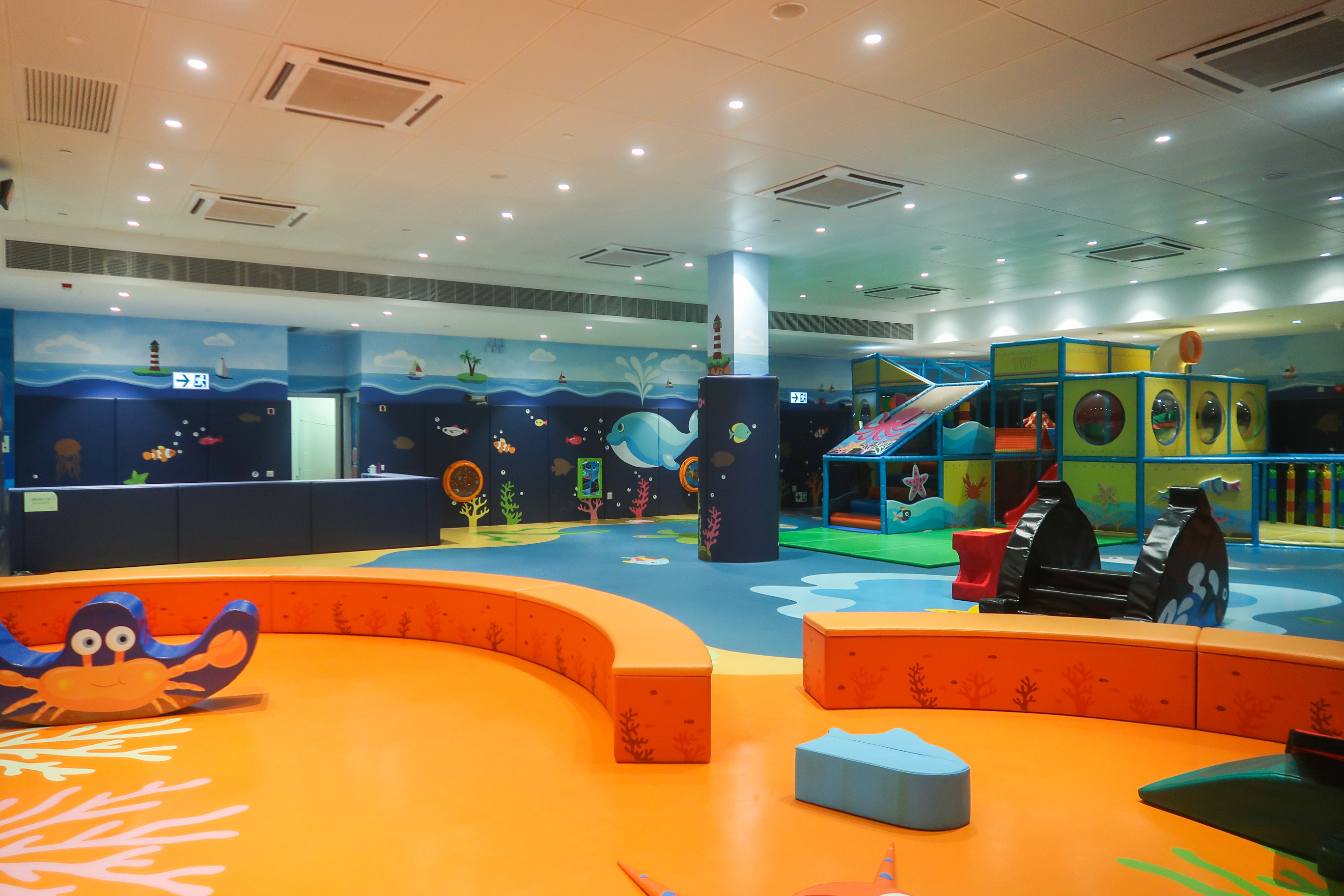 Tsuen Wan Sports Centre GF Children Play Room